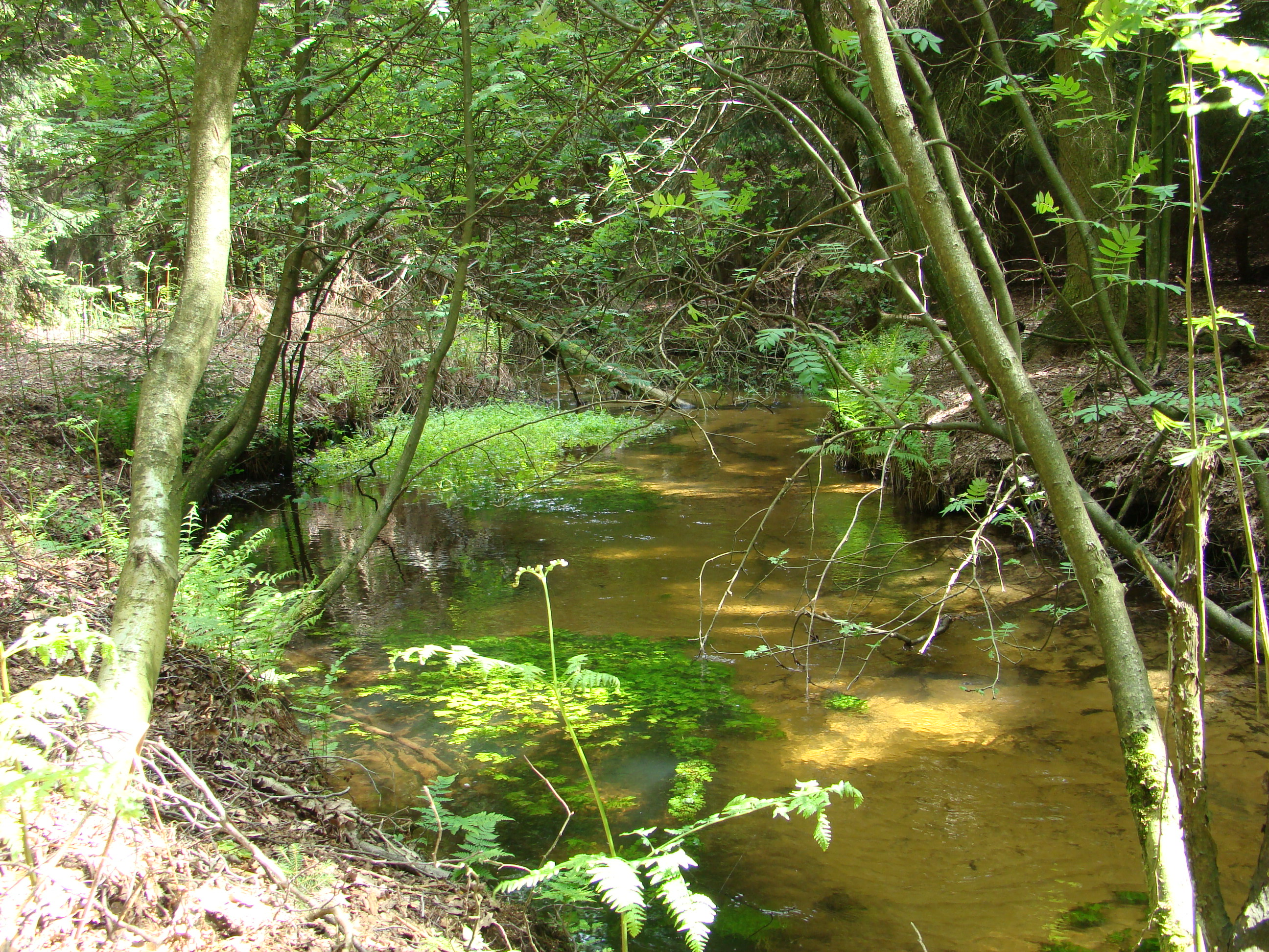 The Weesener Bach (stream) near Lutterloh, Lower Saxony, Germany